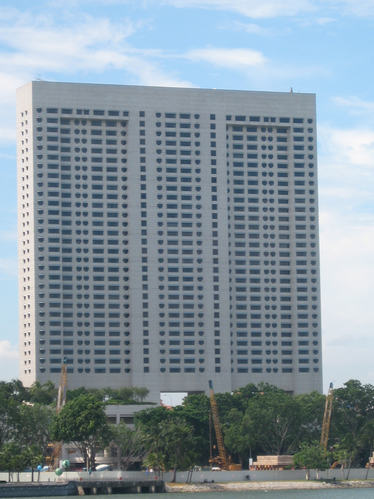 The Ritz-Carlton Millenia Singapore.